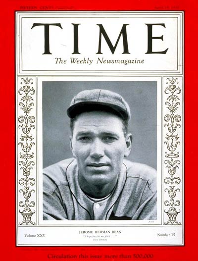 U.S. baseball player Dizzy Dean, featured on the April 15, 1935, cover of Time magazine (Vol. XXV, nr. 15).